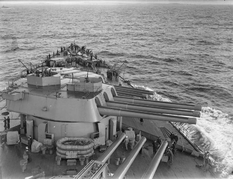 Imperial War Museum caption : "A very clear shot of B turret on board HMS RODNEY taken from the bridge as the ship prepares to enter harbour. Beyond, on the focsle, some of the men are preparing to haul in the paravanes and get the cable cleared for anchoring."